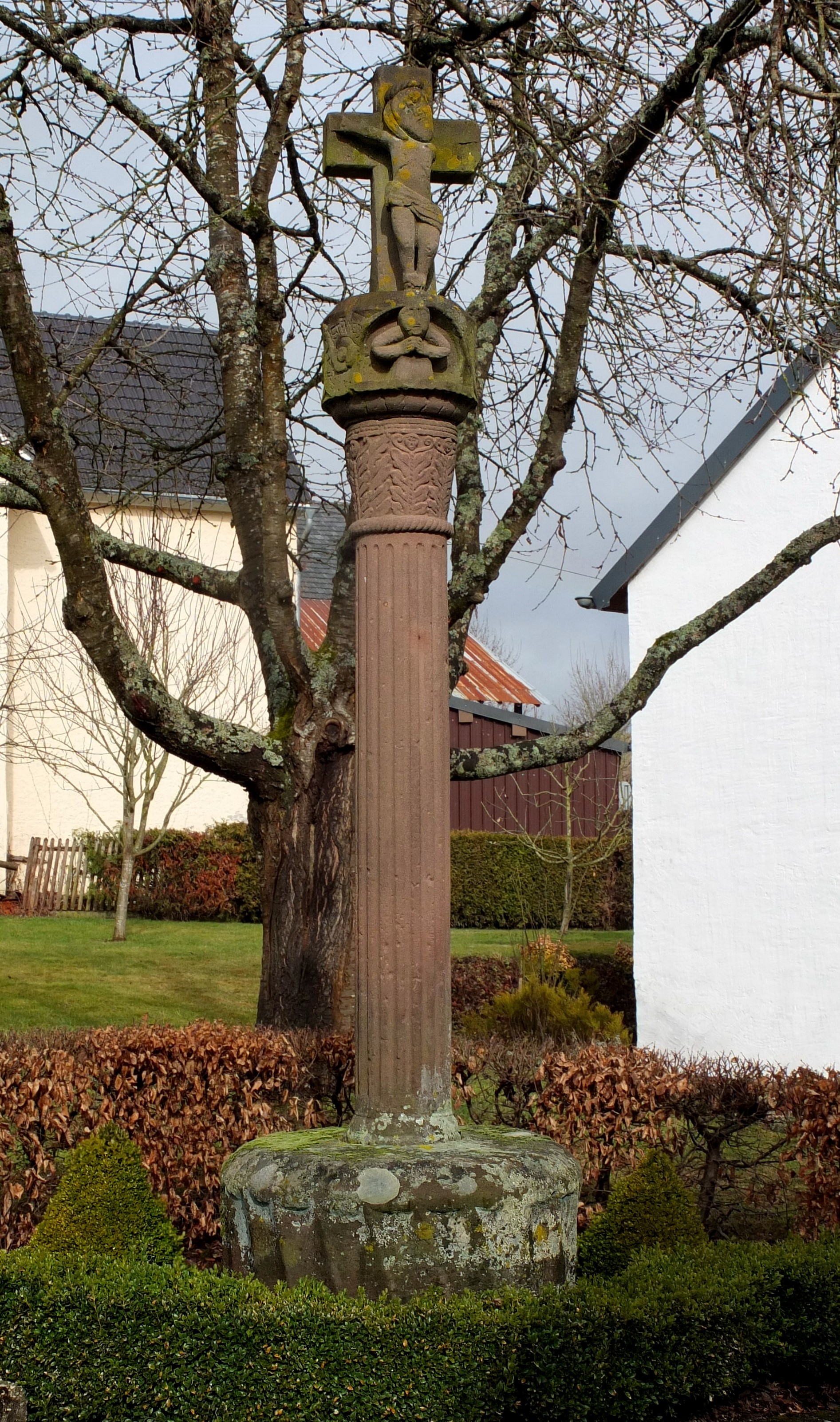 Wayside cross, so-called "Laschkreuz" (1579) in Wißmannsdorf, Germany. This is a photograph of an architectural monument.It is on the list of cultural monuments of Wißmannsdorf